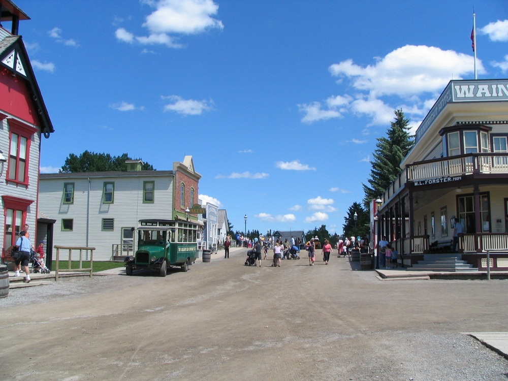 Photo of Railway Prairie Town re-creation